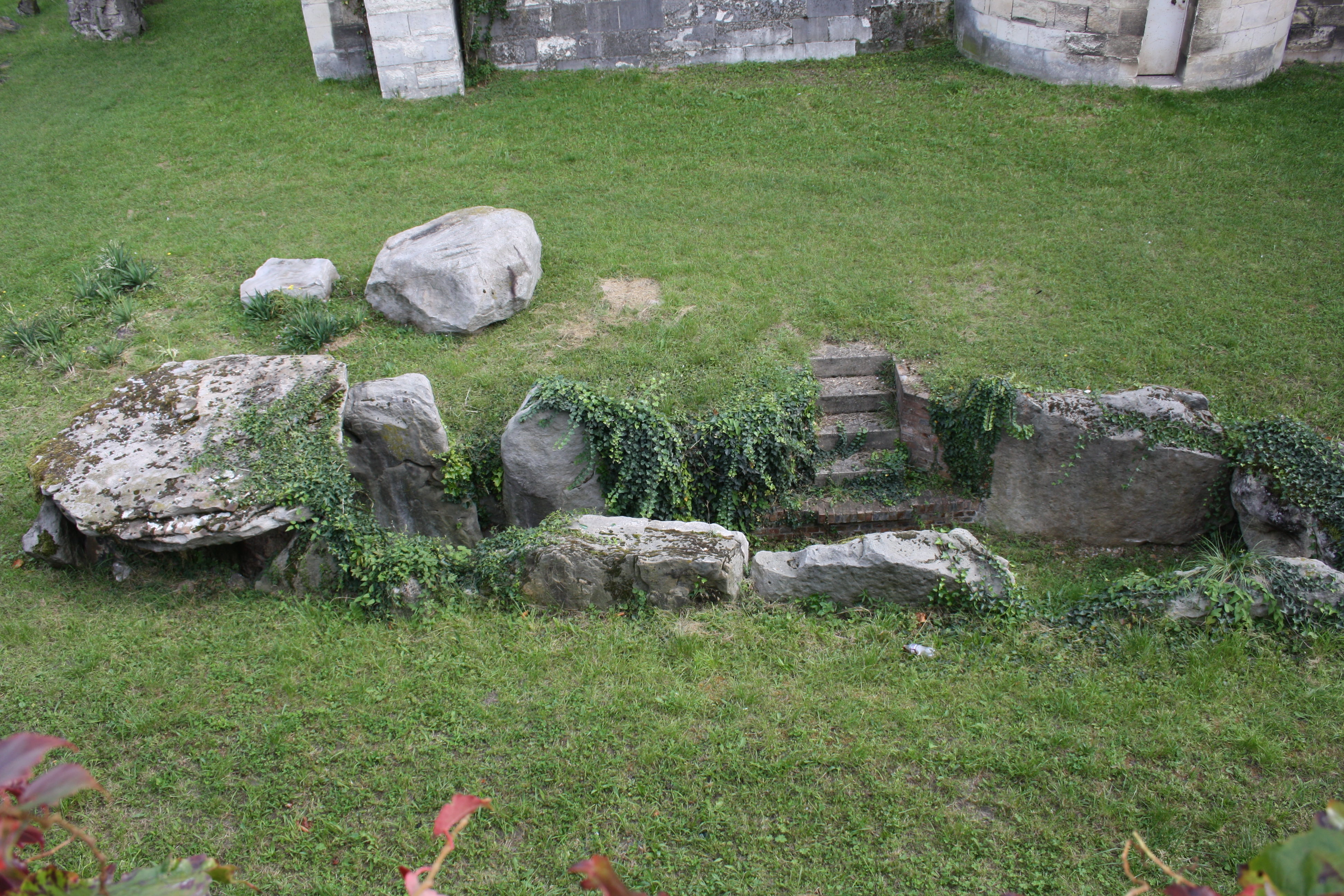 Château Vieux (old castle in french) located Charles de Gaulle place in Saint-Germain-en-Laye, France. House of the National Archaeological Museum (France).